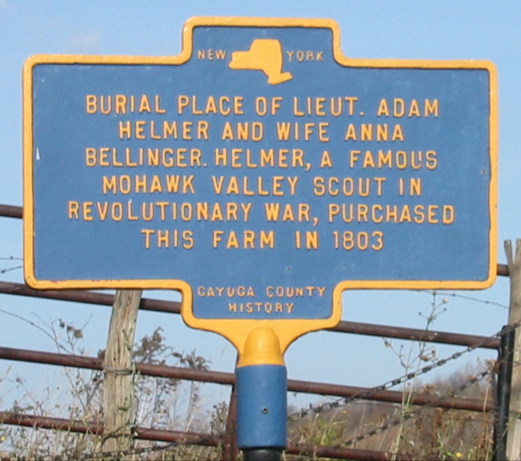 Historical Sign at the burial site of Lt. Adam Hemler (1754-1830) and his wife Anna Bellinger (1757-1841), on the north side of Cottle Road in the Town of Brutus. Note that their grave stones have been moved to to the nearby Weedsport Rural Cemetery. Image created by Catherine Nonenmacher on October 5, 2004.